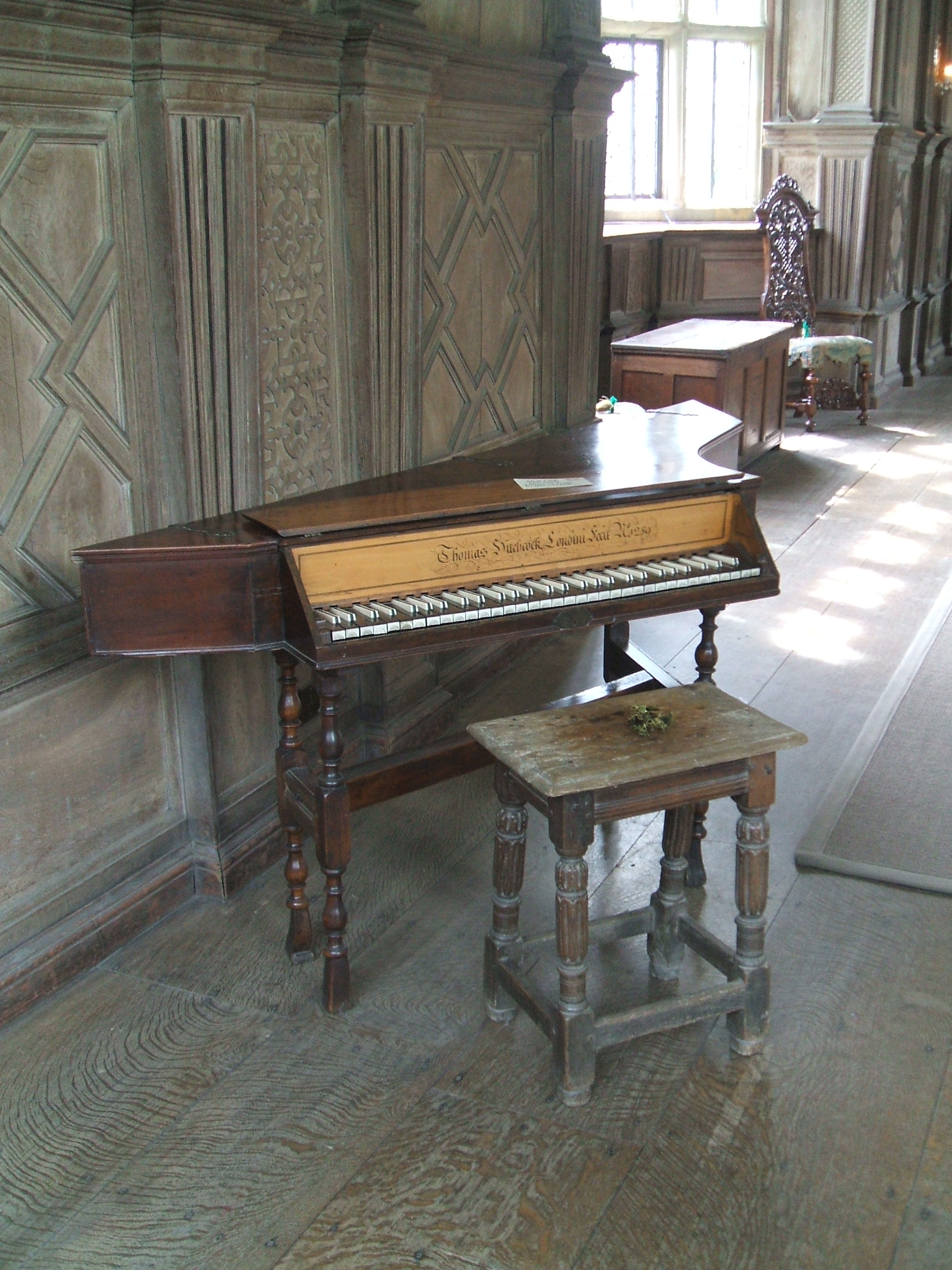 English bentside spinet by Thomas Hitchcock - Haddon Hall (Derbyshire)